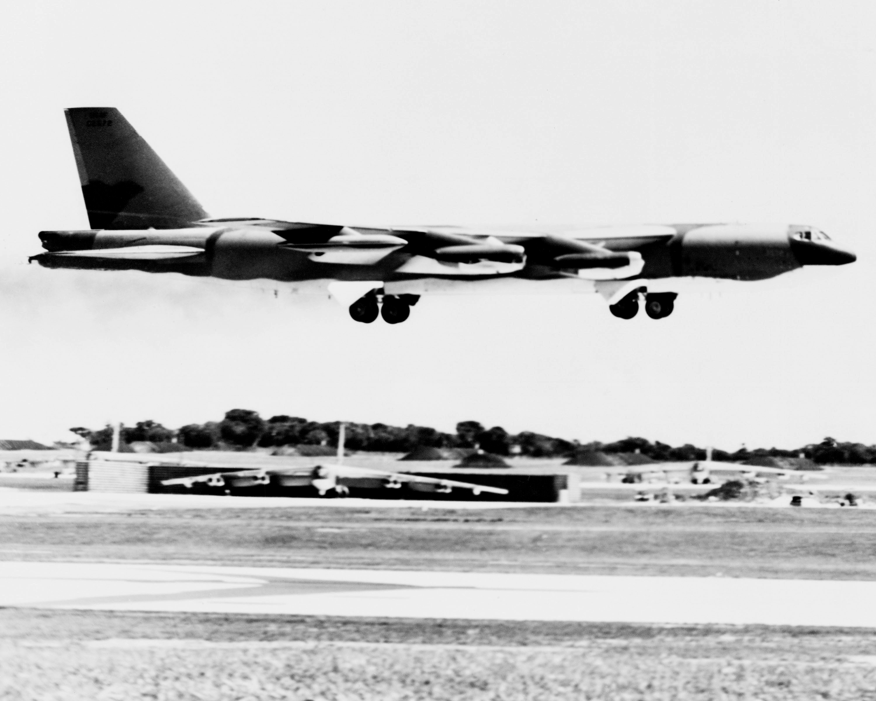 A U.S. Air Force Boeing B-52G-120-BW Stratofortress (s/n 59-2572) from the 72nd Strategic Wing (Provisional) lands at Andersen Air Force Base, Guam (USA), after a bombing mission over North Vietnam during Operation Linebacker II on 15 December 1972.